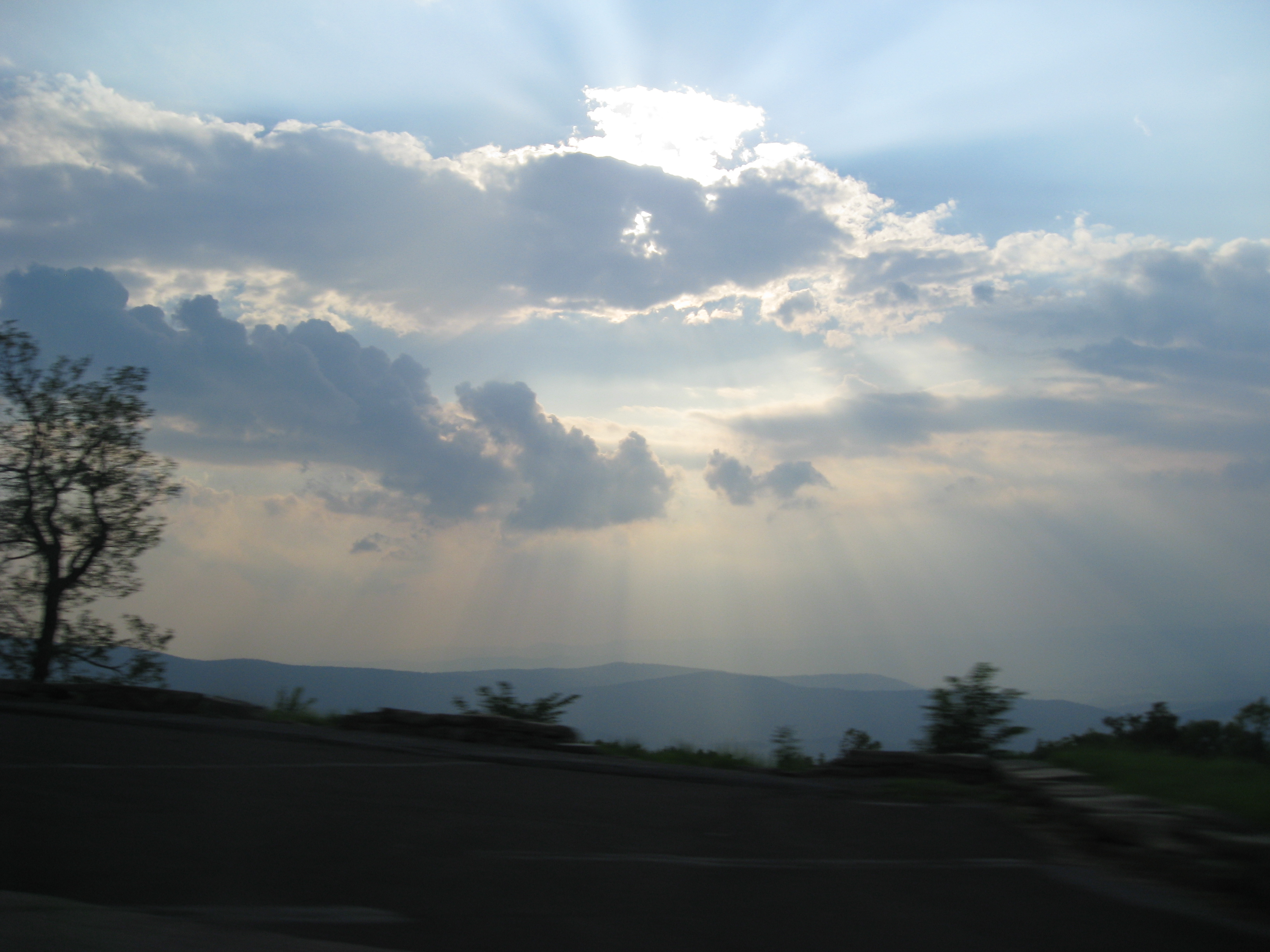 The view from Skyline Drive.